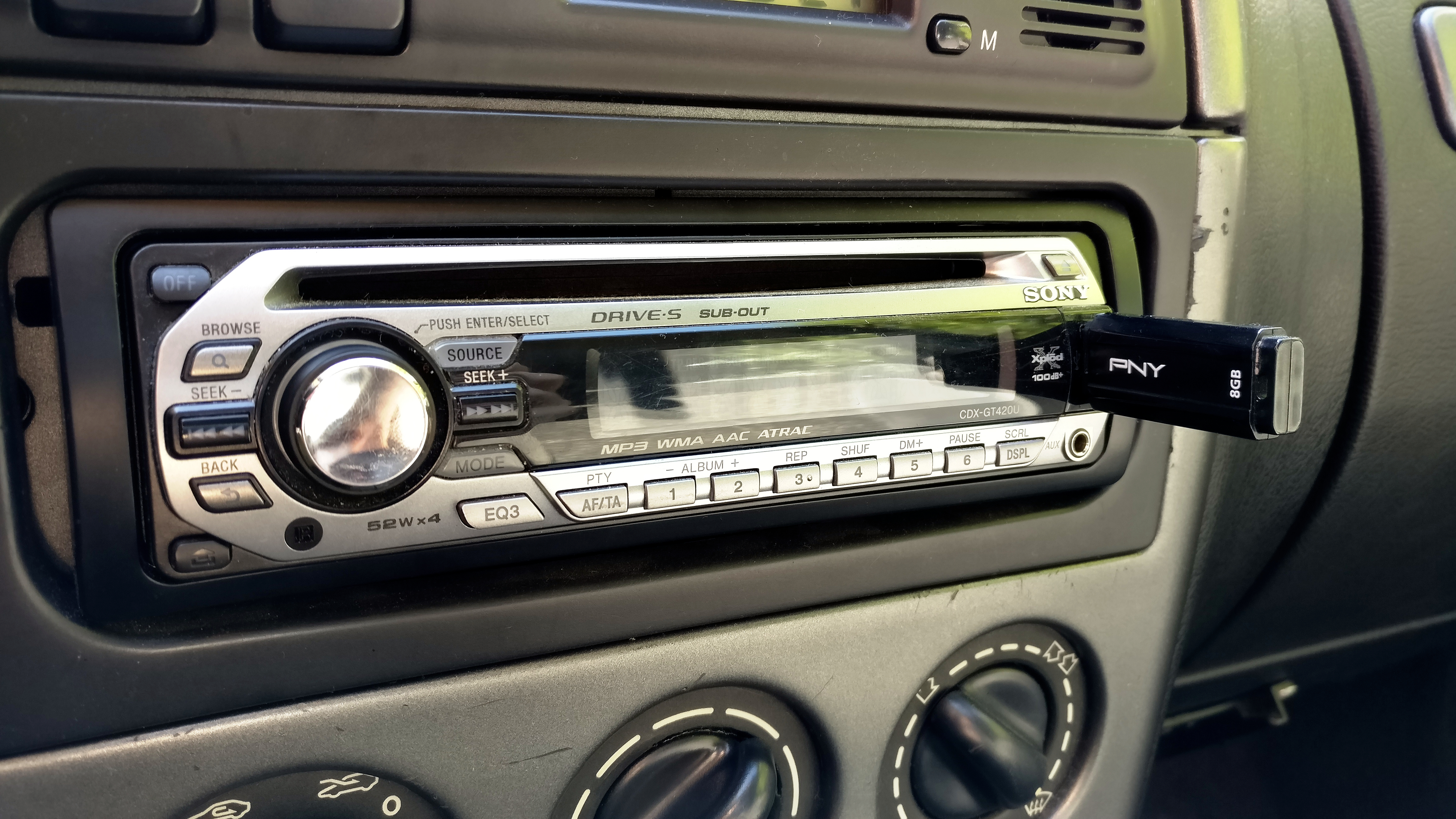 Sony CDX-GT420U car radio with PNY USB flash drive